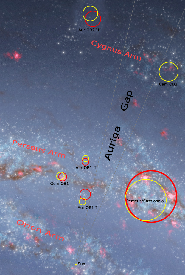 Auriga Gap map